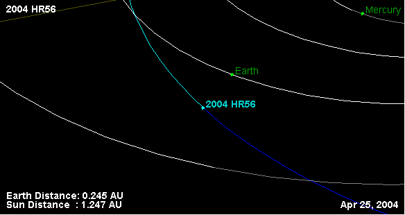 NASA date in file is 25 April 2004